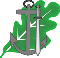 U-1308 Emblem